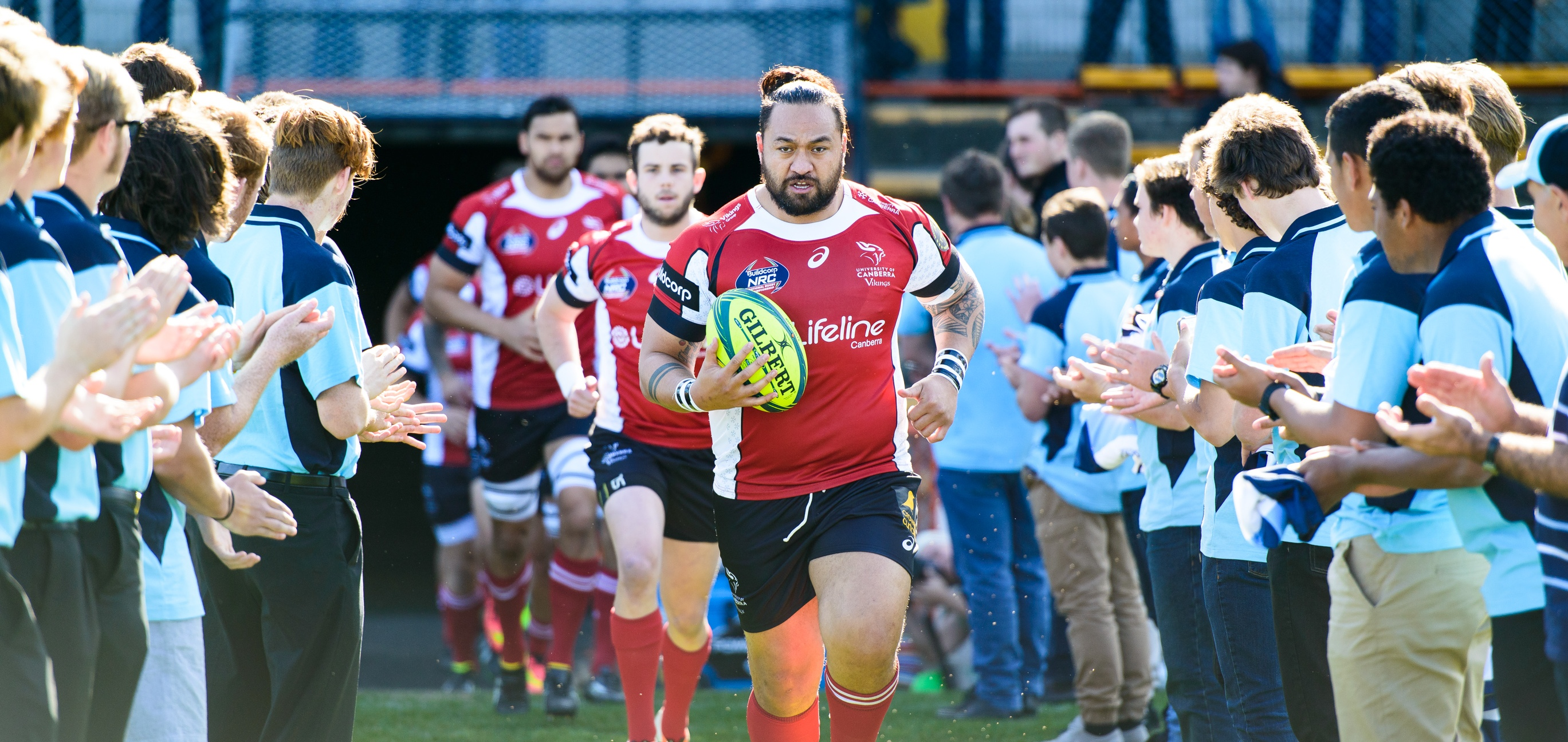 UC Vikings captain Fotu Auelua leads his team out to play the Sydney Stars in the 2014 national Rugby Championship.